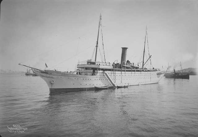 German (later Norwegian) cruiseship SY Meteor built in 1904. Norsk (bokmål): Turistskipet DY «Meteor», bygd i 1904.